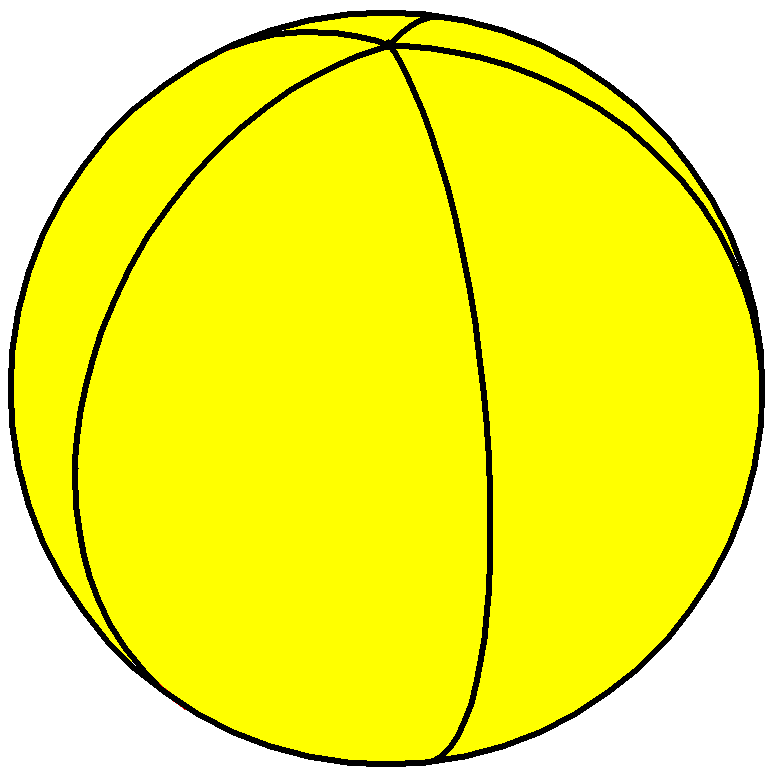 Spherical polyhedron